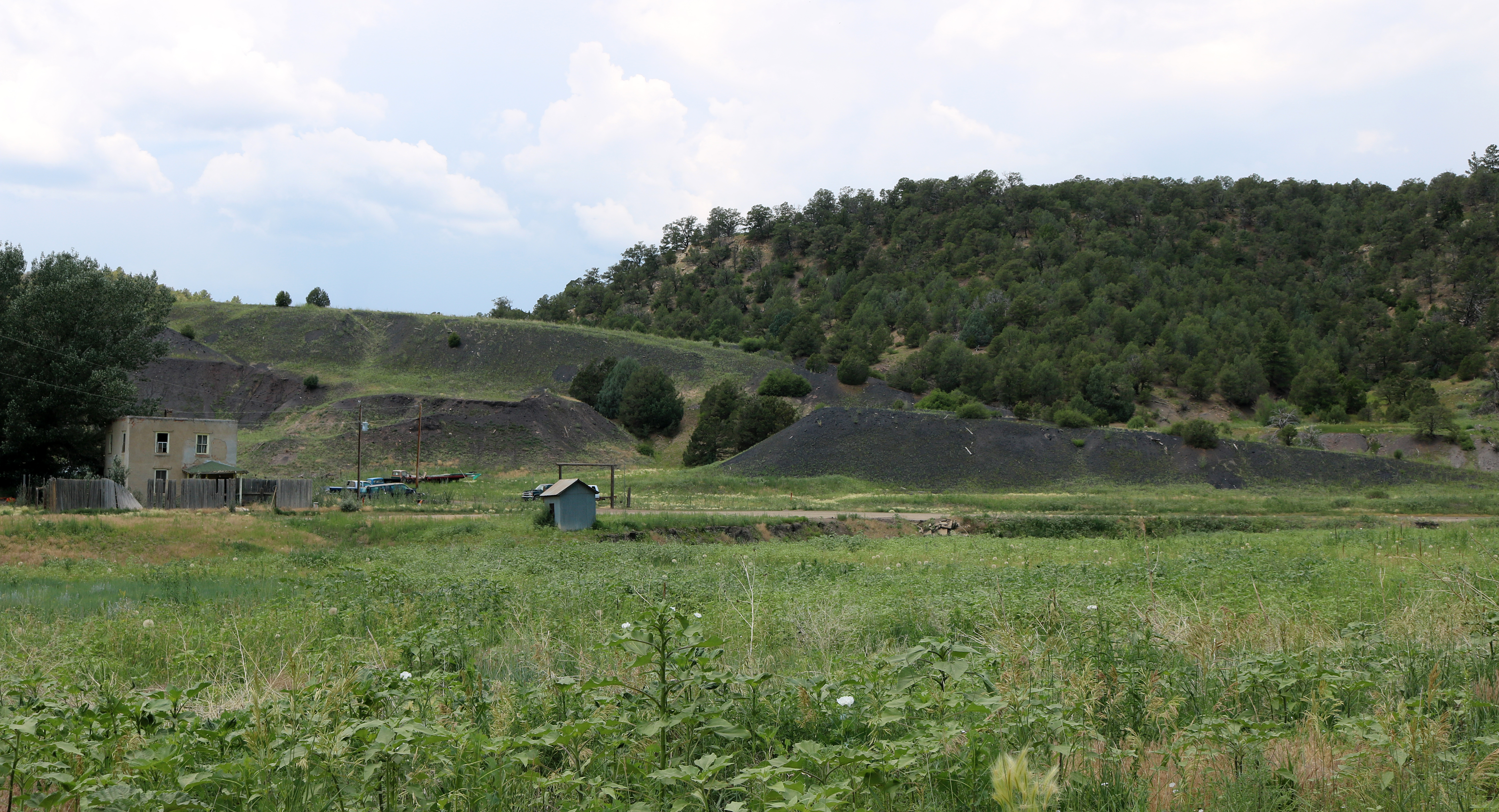 A view of the community of Boncarbo, Colorado (also written as Bon Carbo, Colorado). The picture shows a structure on (Las Animas) County Road 30.1 and a slag heap from the now-closed coal mine there.